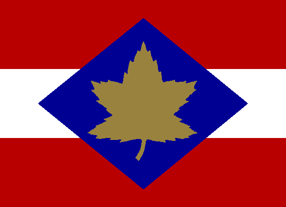 The formation signs used by the Canadian Army in WWII would be covered by a Crown Copyright held by the Canadian Department of National Defence. The copyright expired 50 years after the formation sign was created (no later than 1944). The image in the file was created entirely by me based on other lower-quality images accessible on the Internet.